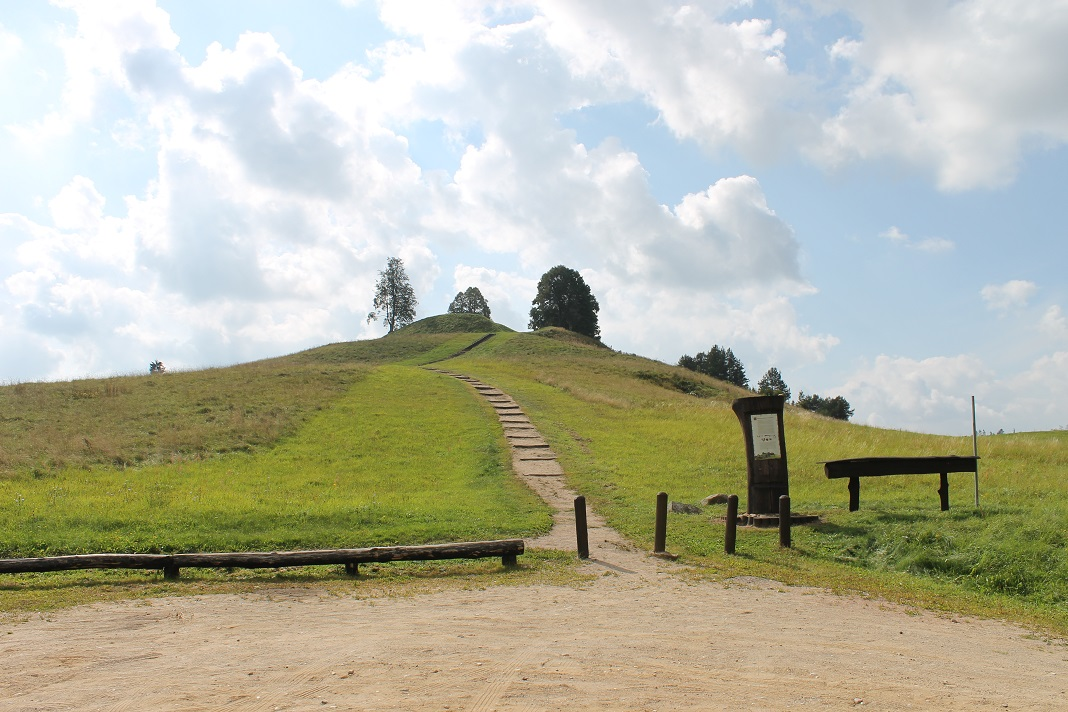 Rudamina Hillfort, Lazdijai district municipality, LithuaniaLietuvių: Rudaminos piliakalnis, Lazdijų rajono savivaldybė, Lietuva